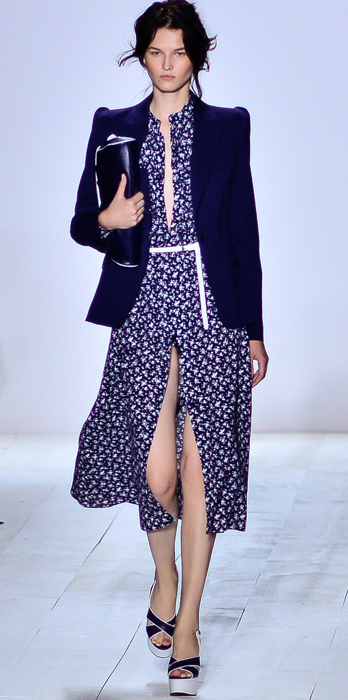 A model walks the runway at the Michael Kors Spring/Summer 2014 show at New York Fashion Week, September 2013.